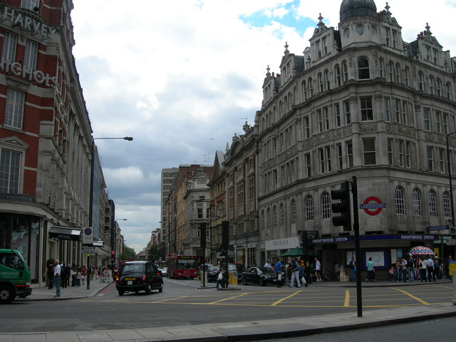 Sloane Street, SW1 (1) Taken from Knightsbridge (the station is clearly visible to the right of shot). The next few hundred yards of this road largely features shops selling expensive luxury or designer label goods.